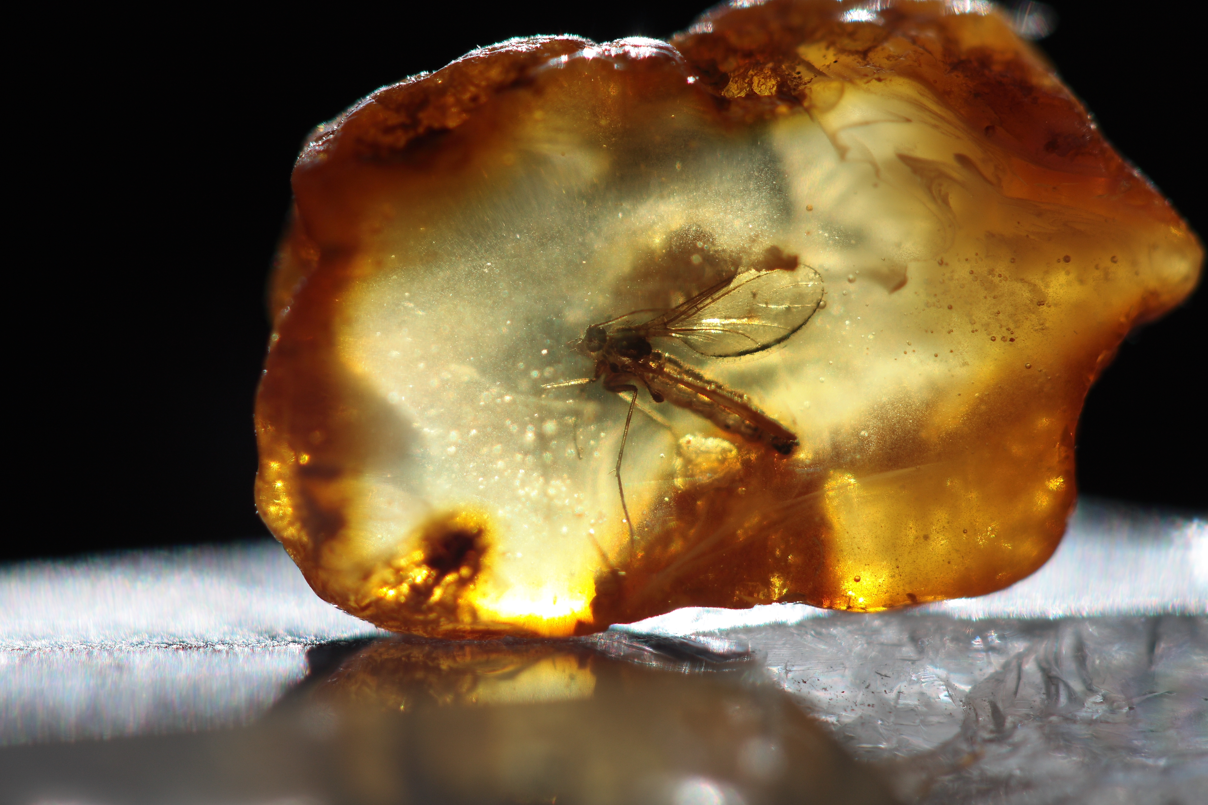 Sciaridae in Baltic amber